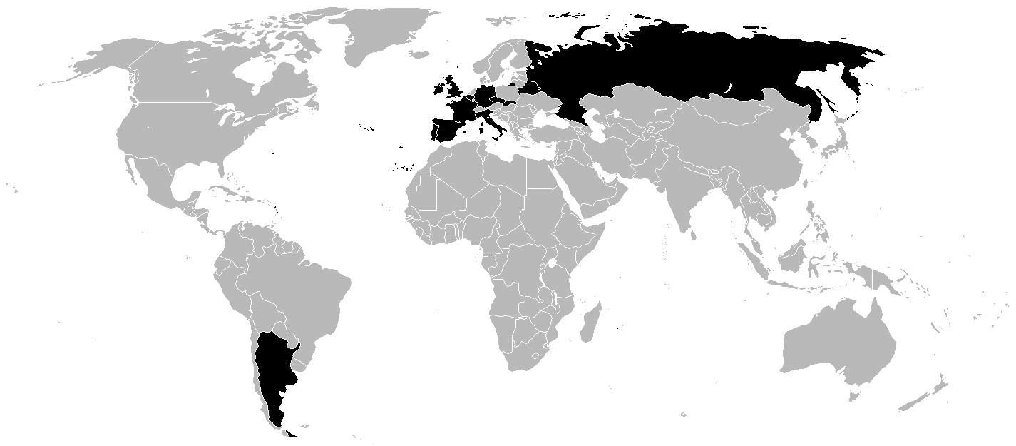 A map of states where are anarchist federations which are members of IAF.